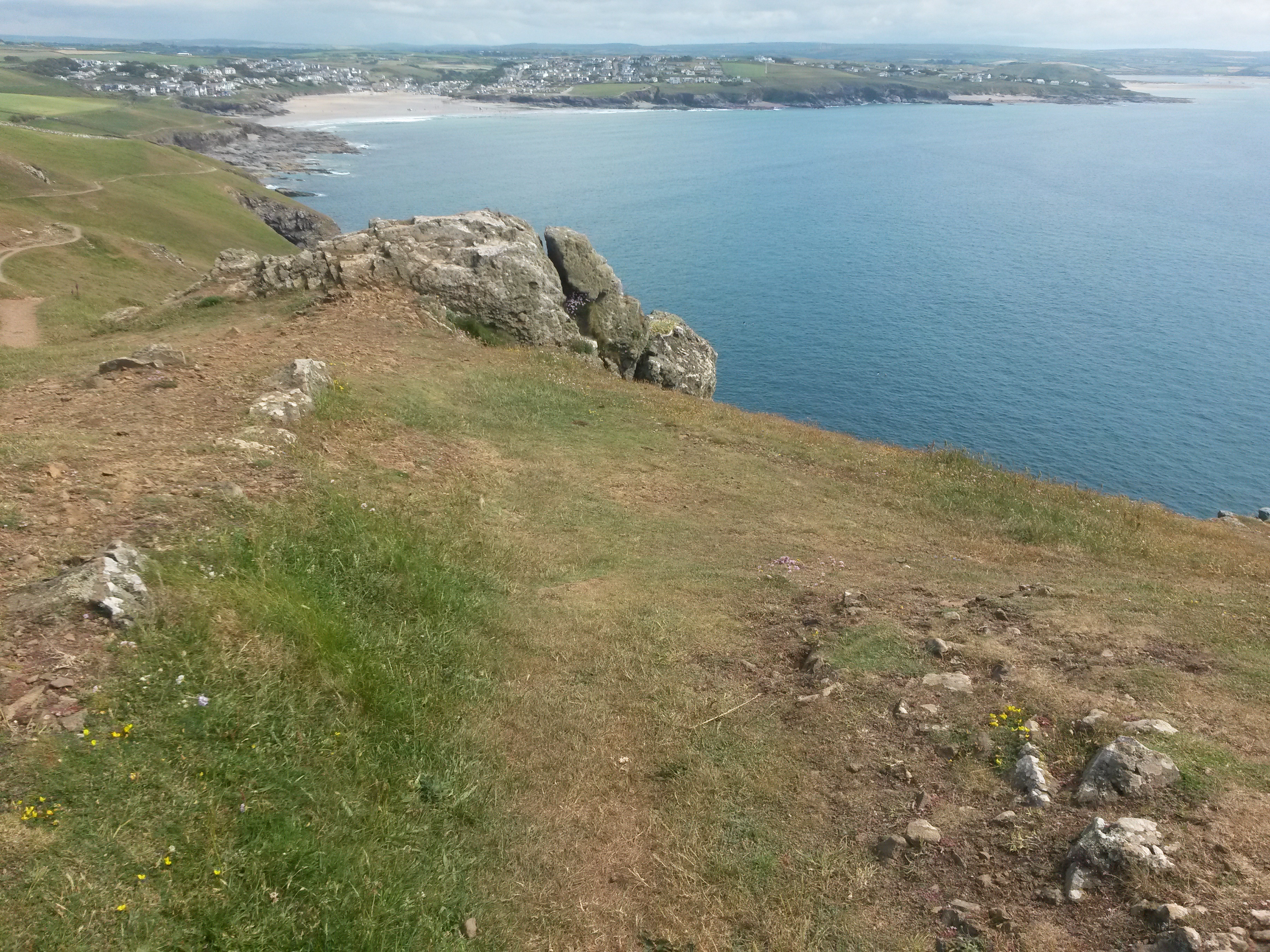 Looking back towards Polzeath from the cliff walk to Pentire point.